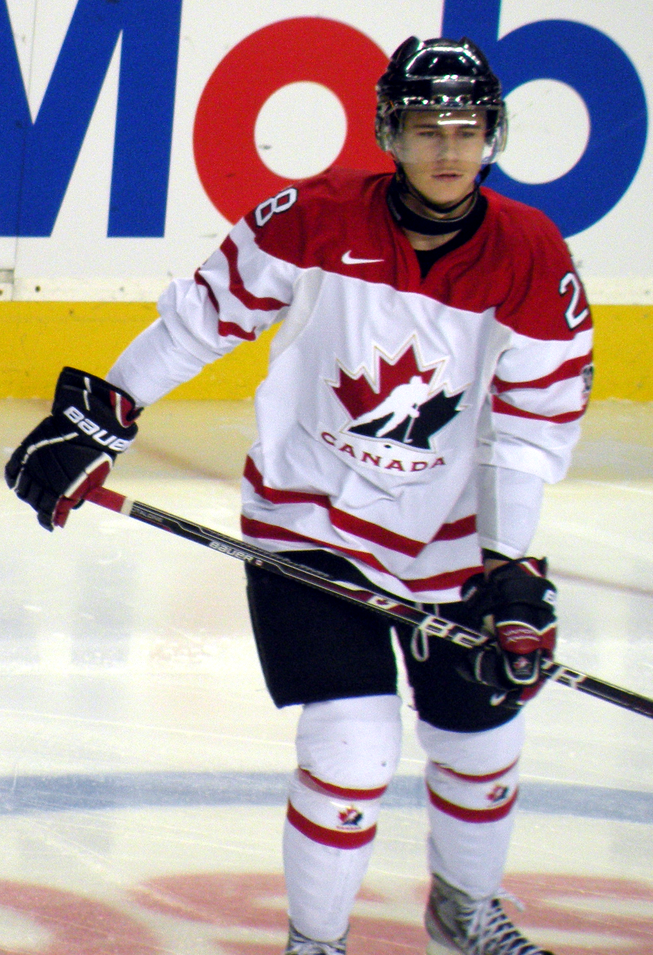 Canadian defenceman Nathan Beaulieu prior to the bronze medal game at the 2012 World Junior Hockey Championships in Calgary, Alberta, Canada.